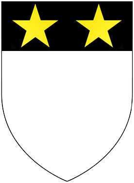 Arms of Salvin of Croxdale Hall, Durham: Argent, on a chief sable two mullets or (Burke's Landed Gentry, 1937, pp.1979-1980, Salvin of Croxdale)